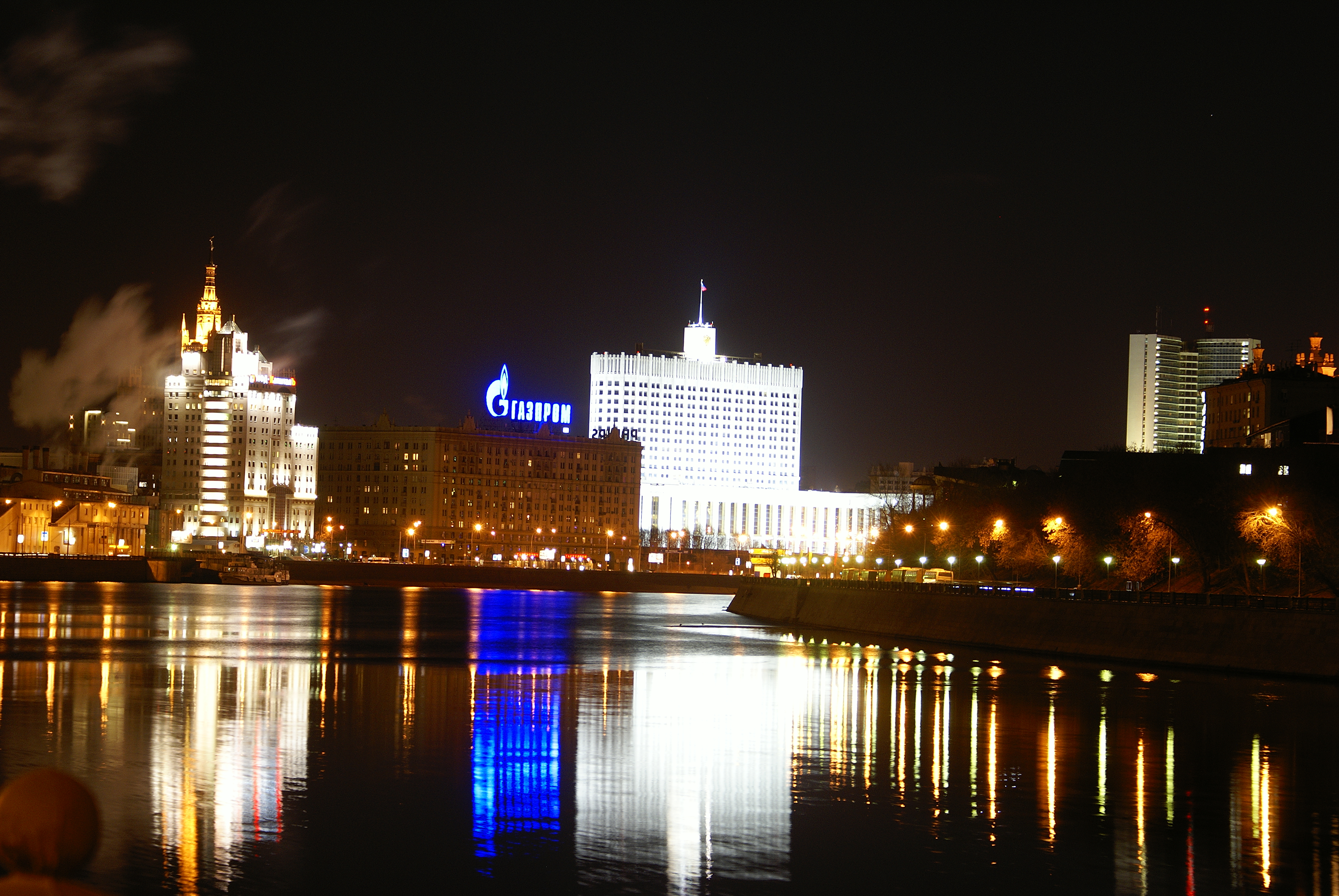 Russian Government Building (The White House) in Moscow